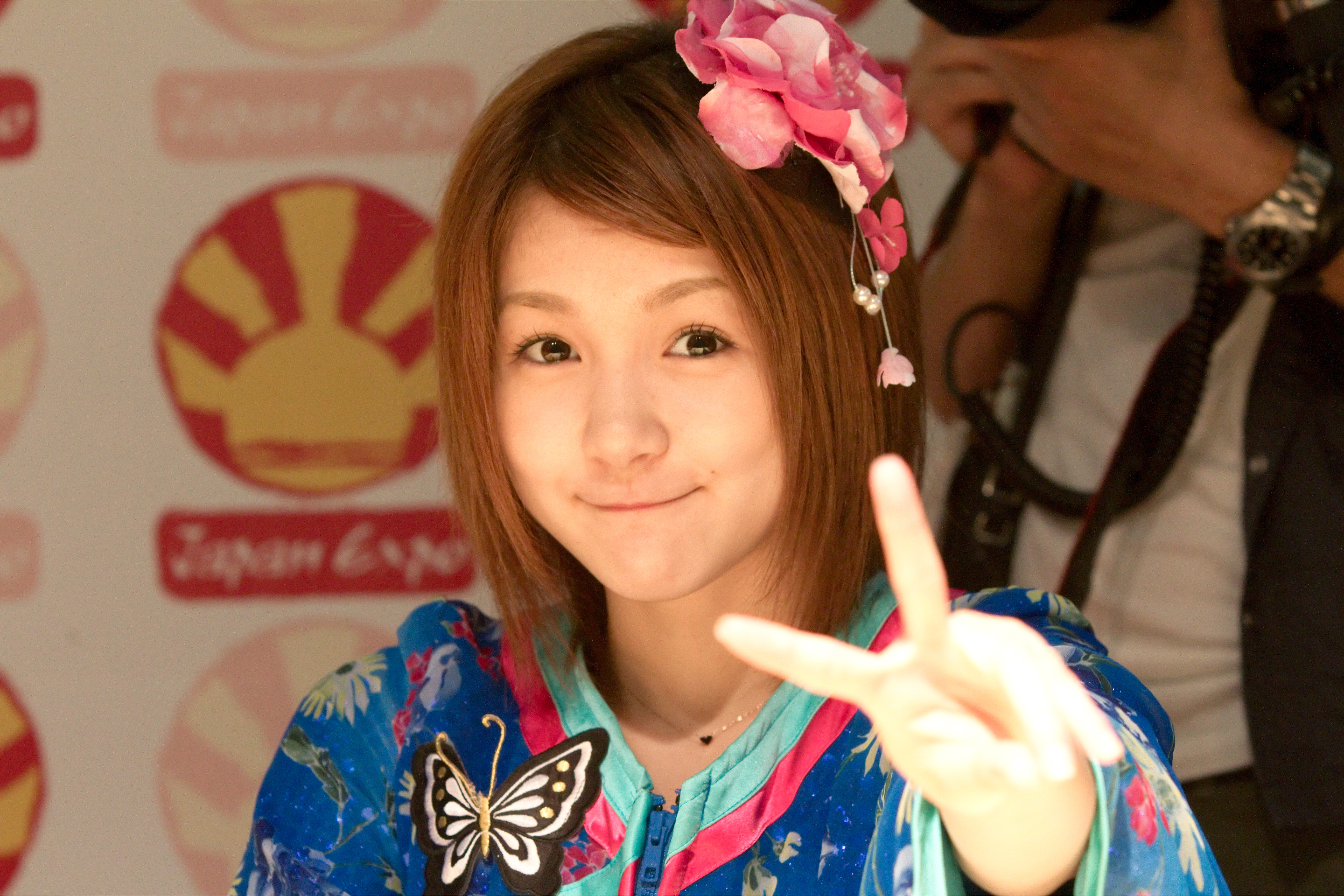 Aika Mitsui of Morning Musume during autograph session at Japan Expo, Sunday, July 03, 2010 (Paris, France).